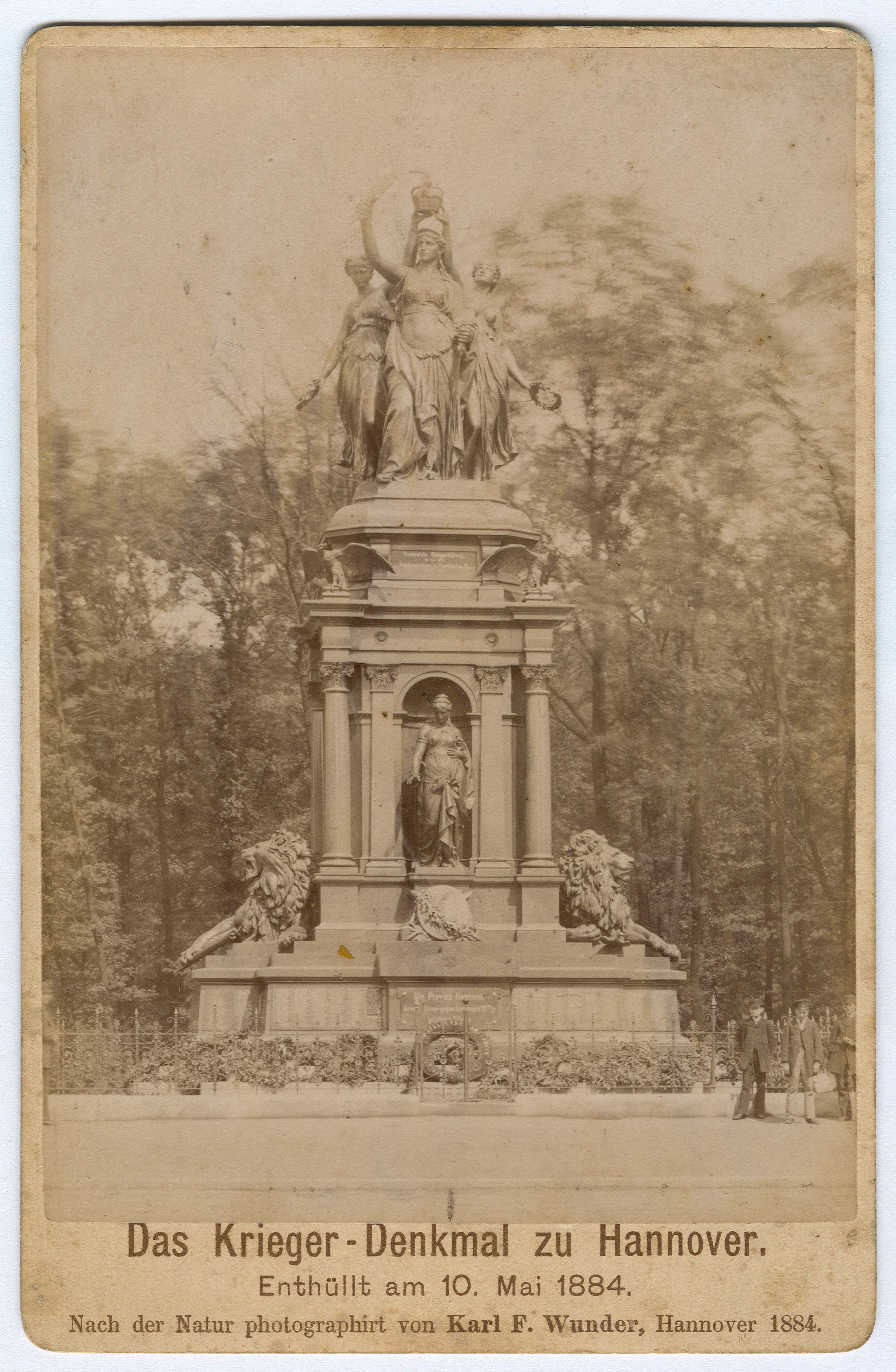 Printing on the picture side: "The Warrior Monument in Hanover. Uncovered Mai 10, 1884. After the nature photographed by Karl. F. Wunder, Hannover 1884."